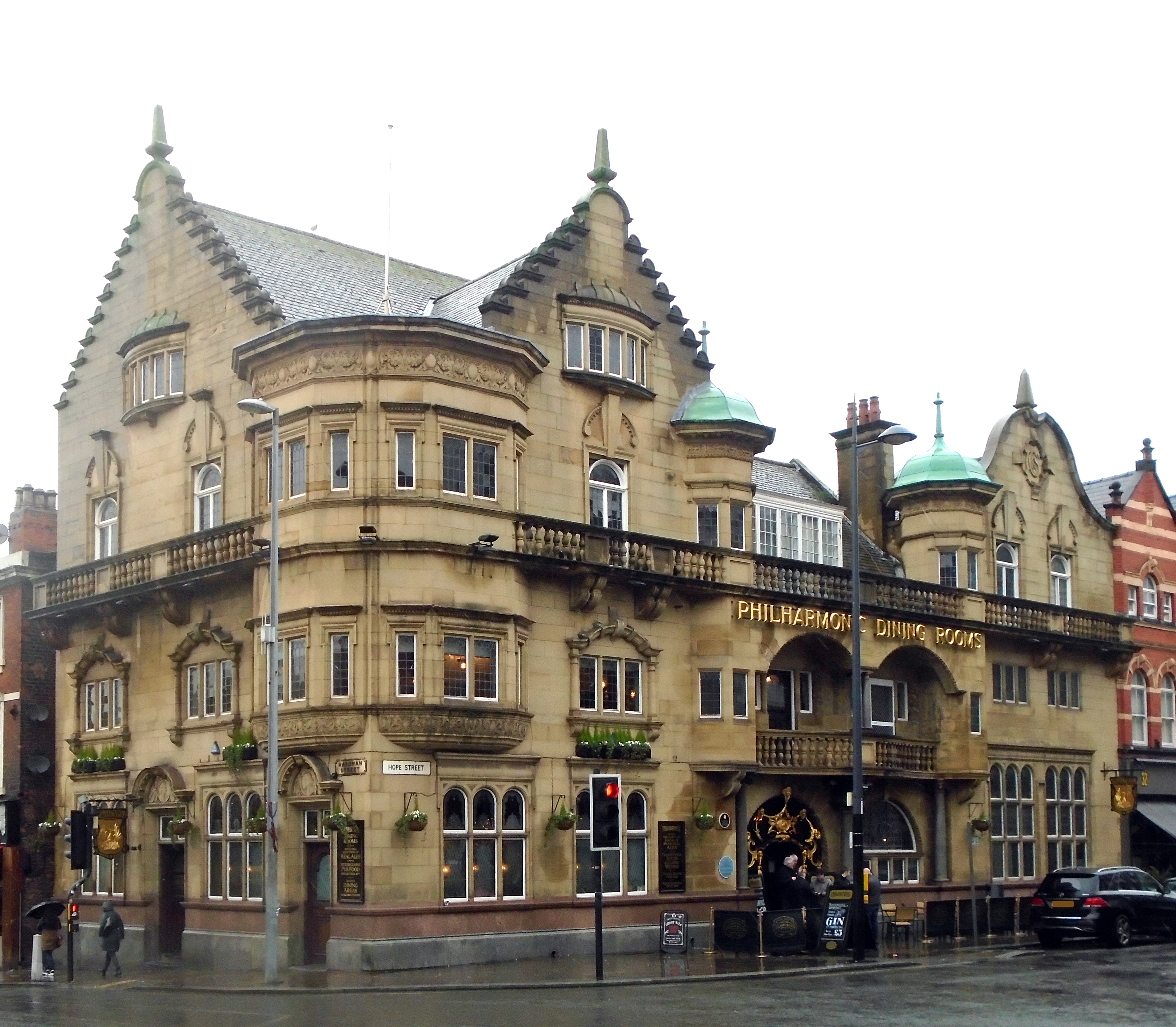 View across the junction of Hope Street and Myrtle Street from corner of the Philharmonic Hall of the Grade II listed Philharmonic Dining Rooms pub in Liverpool, noted for its interior and marble toilets.